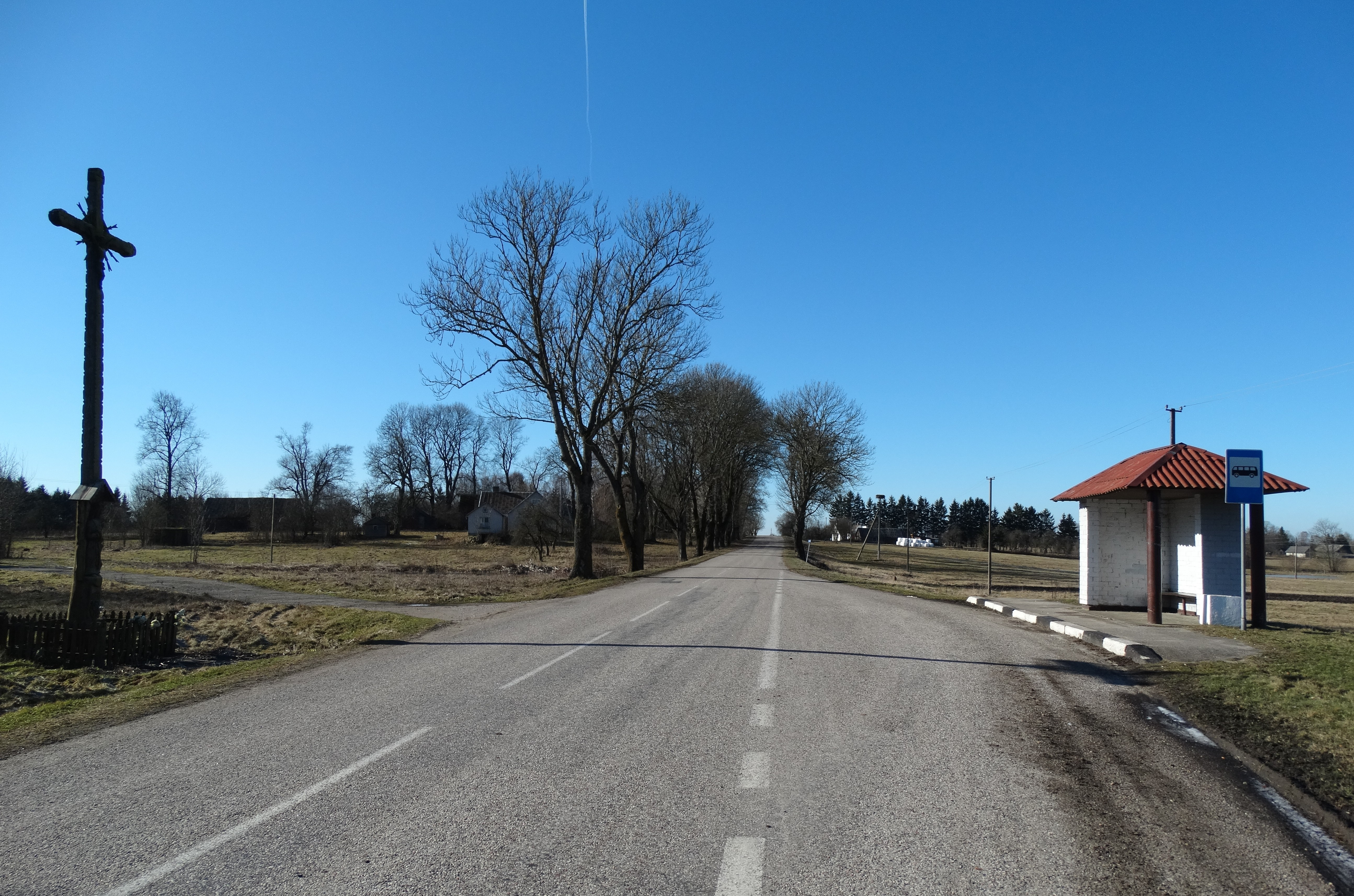 Bus stop, Eičiūnai, Alytus district, Lithuania